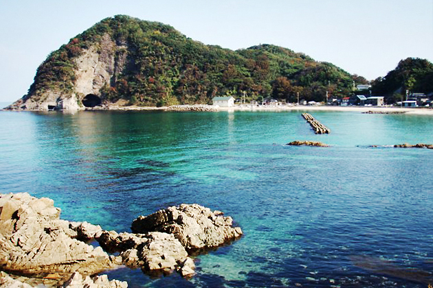 Yodo-no-domon of Takeno Coast in Toyooka, Hyogo prefecture, Japan.